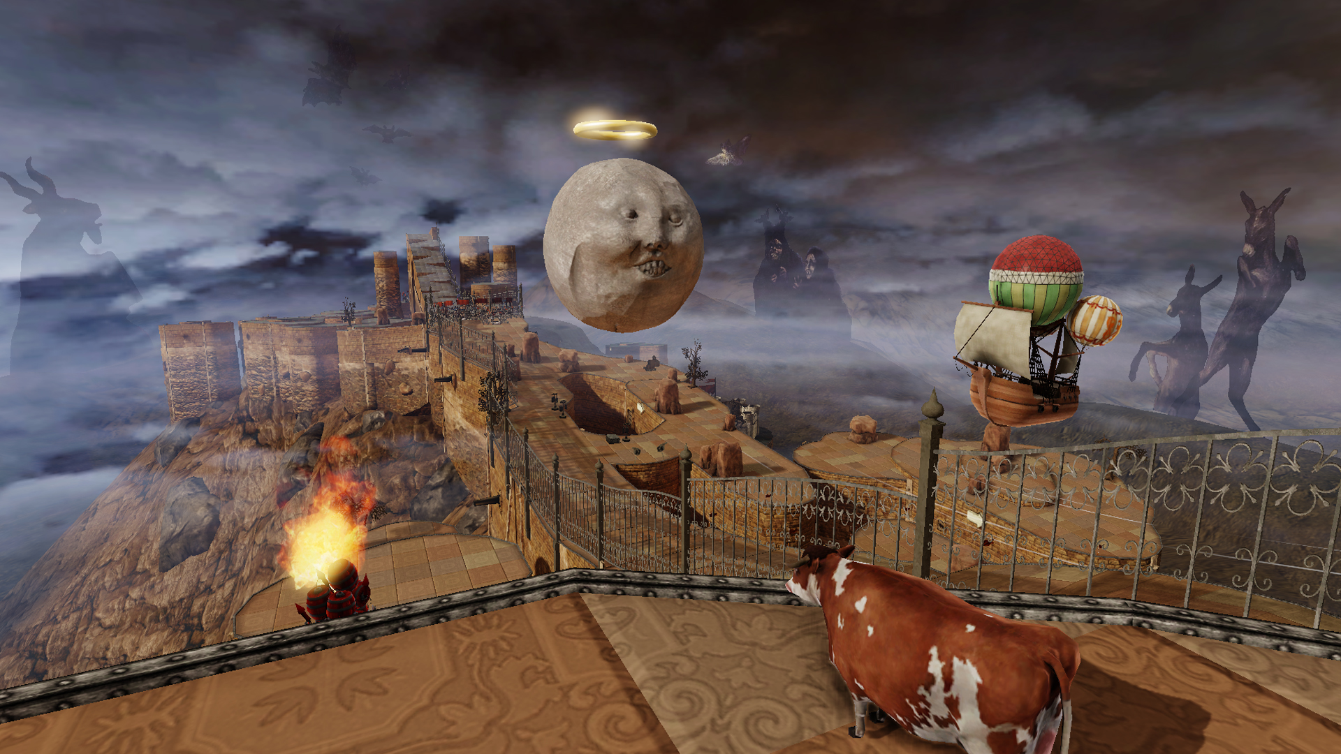 Rock of Ages screenshot, developed by ACE Team and released in 2011. This screenshot draws from Romanticism. The game is built on Unreal Engine 3.